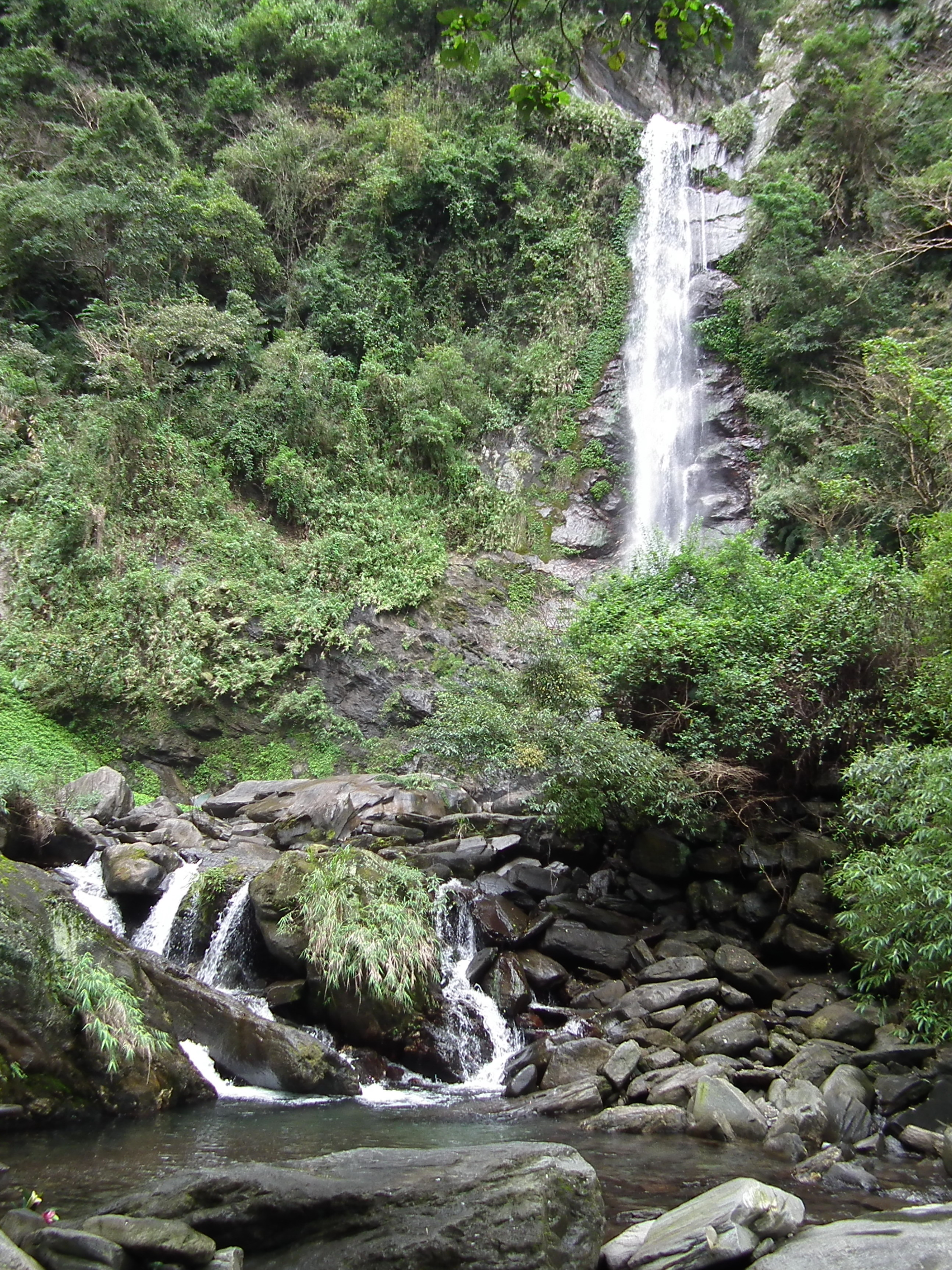 Nanan Waterfall 南安瀑布